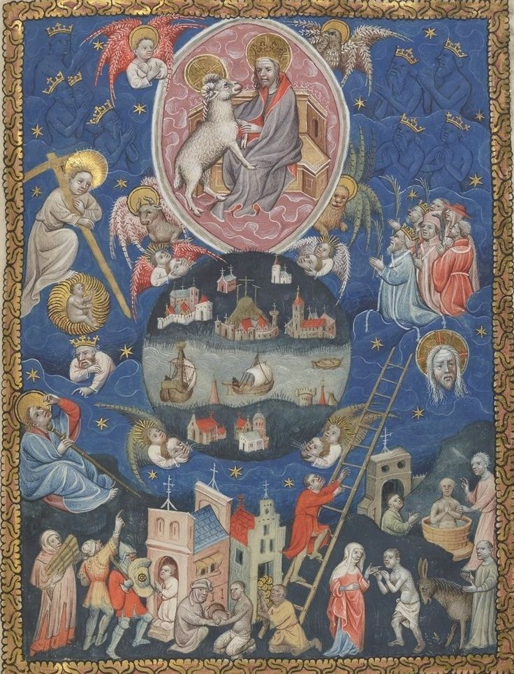 Apocalypse flamande - BNF Néerl3